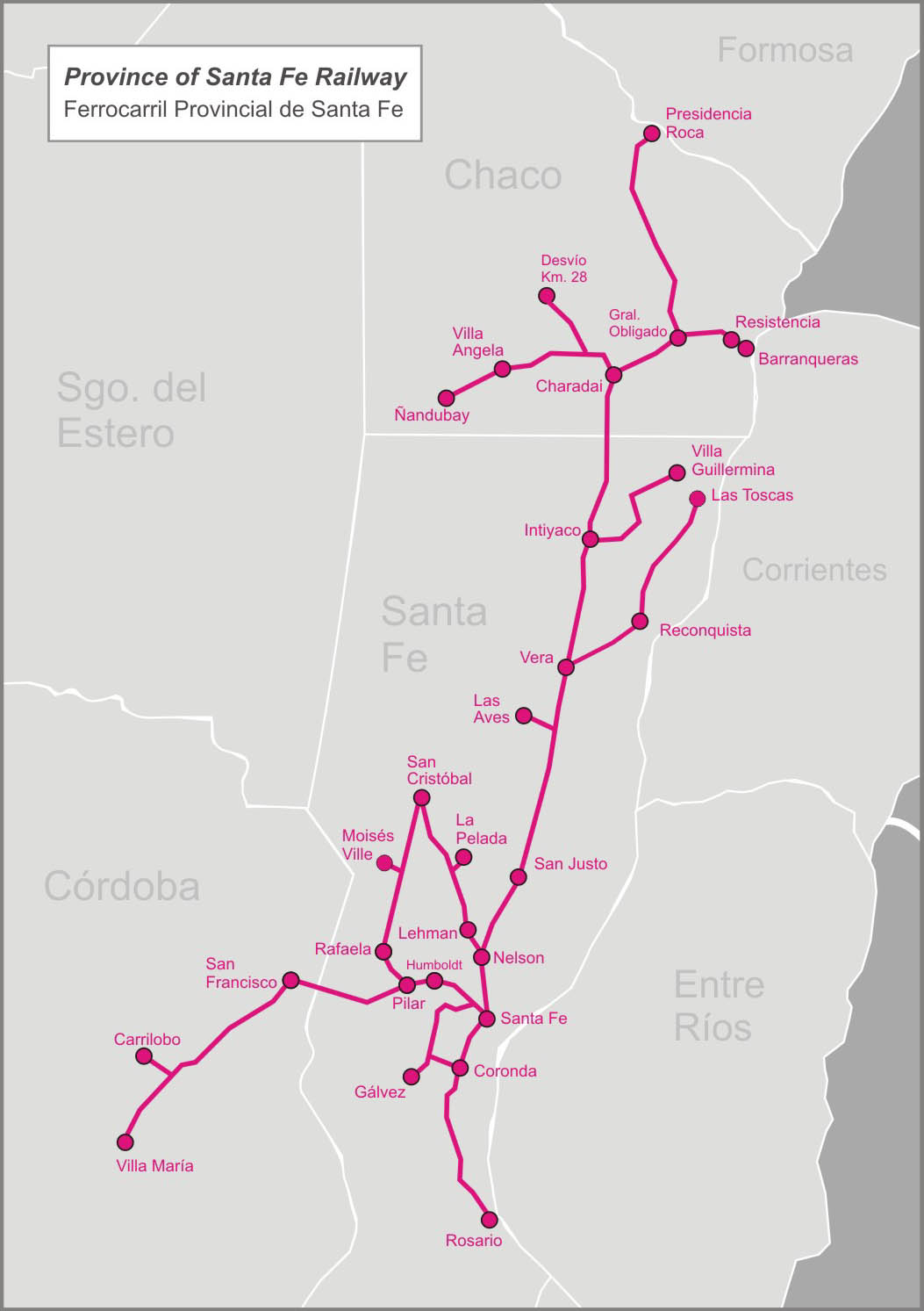 Map of the Province of Santa Fe Railway (FC Prov. de Santa Fe), a railway company that built and operated a network over three provinces of Argentina.